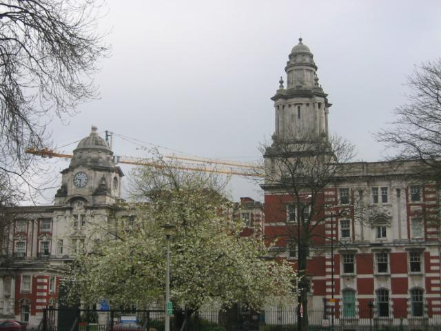 Central Manchester & Manchester Children's University Hospitals, MRI. Buildings that comprise part of the site commonly known as the Manchester Royal Infirmary (MRI) - Opposite site of Wilmslow Road to the Whitworth Art Gallery.